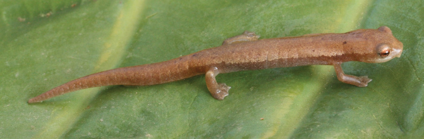 The Bolitoglossa chinanteca holotype.